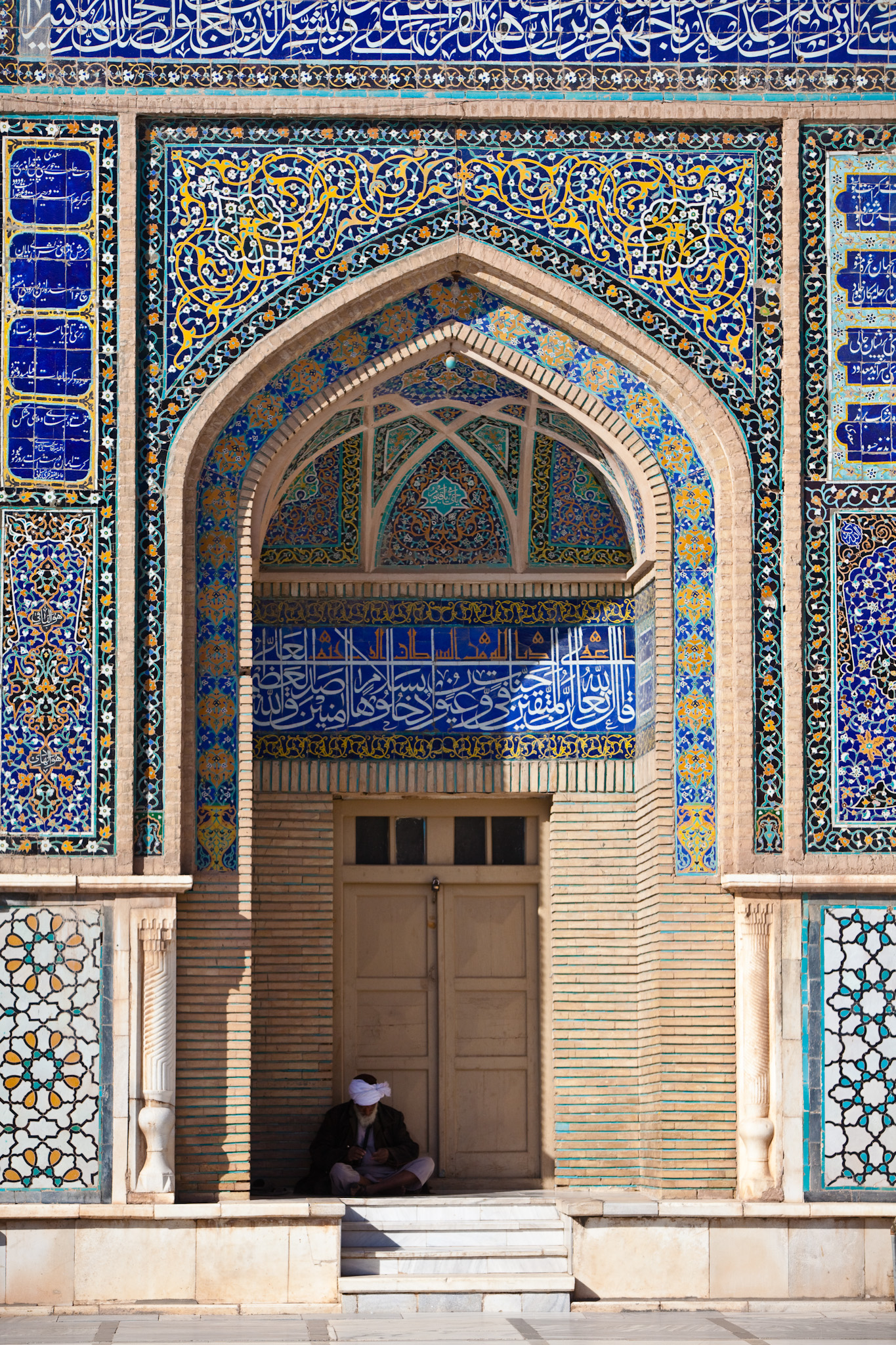 Friday Mosque, Herat, Afghanistan.